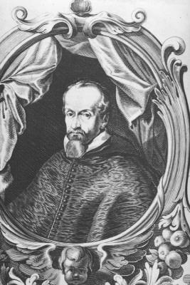 Breuner, Count Philipp Friedrich, b. St. Margarten am Moos (Lower Austria), Sept. 6, 1597, d. Vienna, May 22, 1669, priest. 1630-1639 suffragan bishop in Olmütz; 1639-1669 Prince bishop of Vienna.